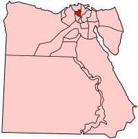 Map of Egypt showing Al Gharbiyah (Gharbeya) governorate. Made by User:Golbez based on PD maps.